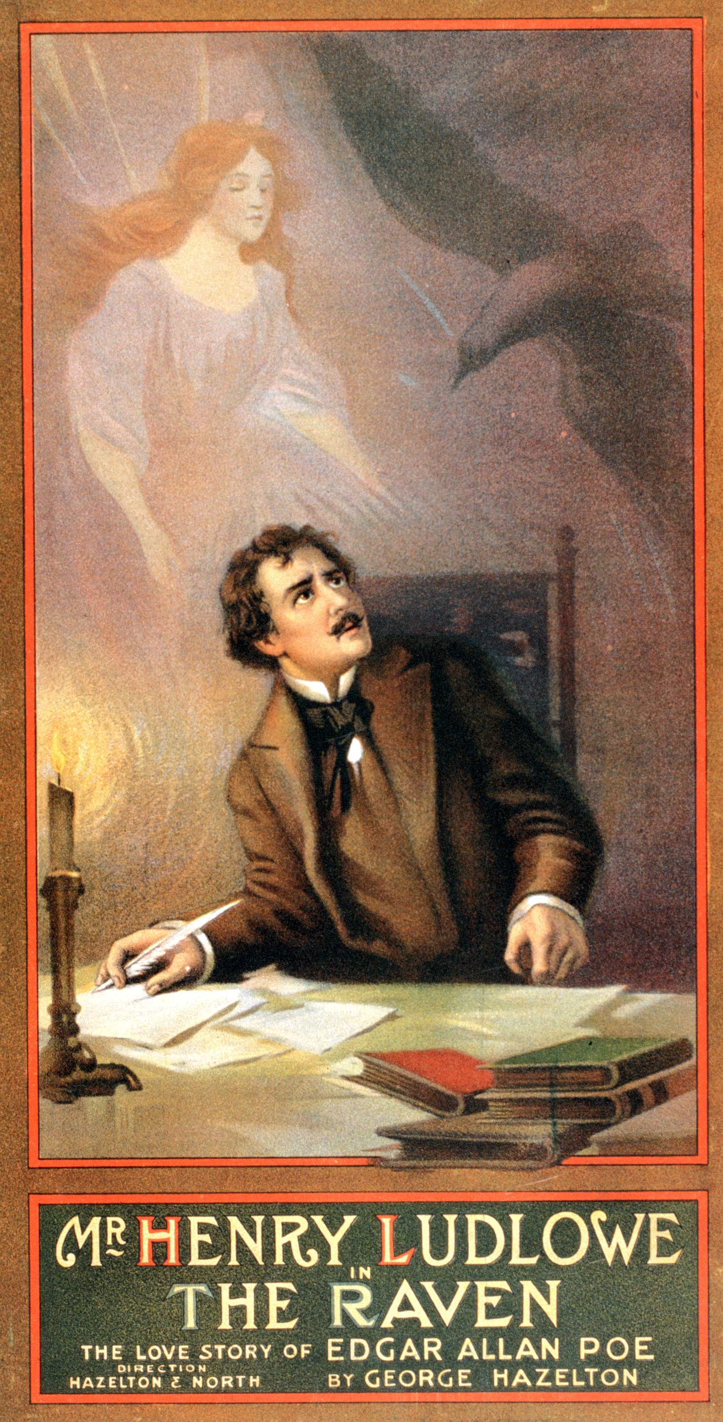 Henry Ludlowe in "The Raven: The Love Story of Edgar Allan Poe" by George Cochrane Hazelton (1868-1921). Direction, Hazelton & North.